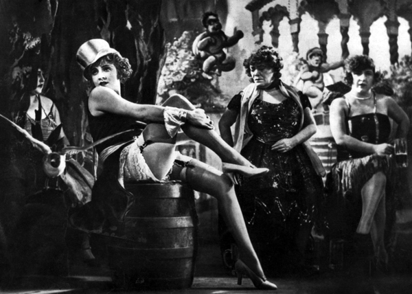 Description: Low-resolution reproduction of publicity photograph for the film Der Blaue Engel (The Blue Angel) (1930), featuring Marlene Dietrich.